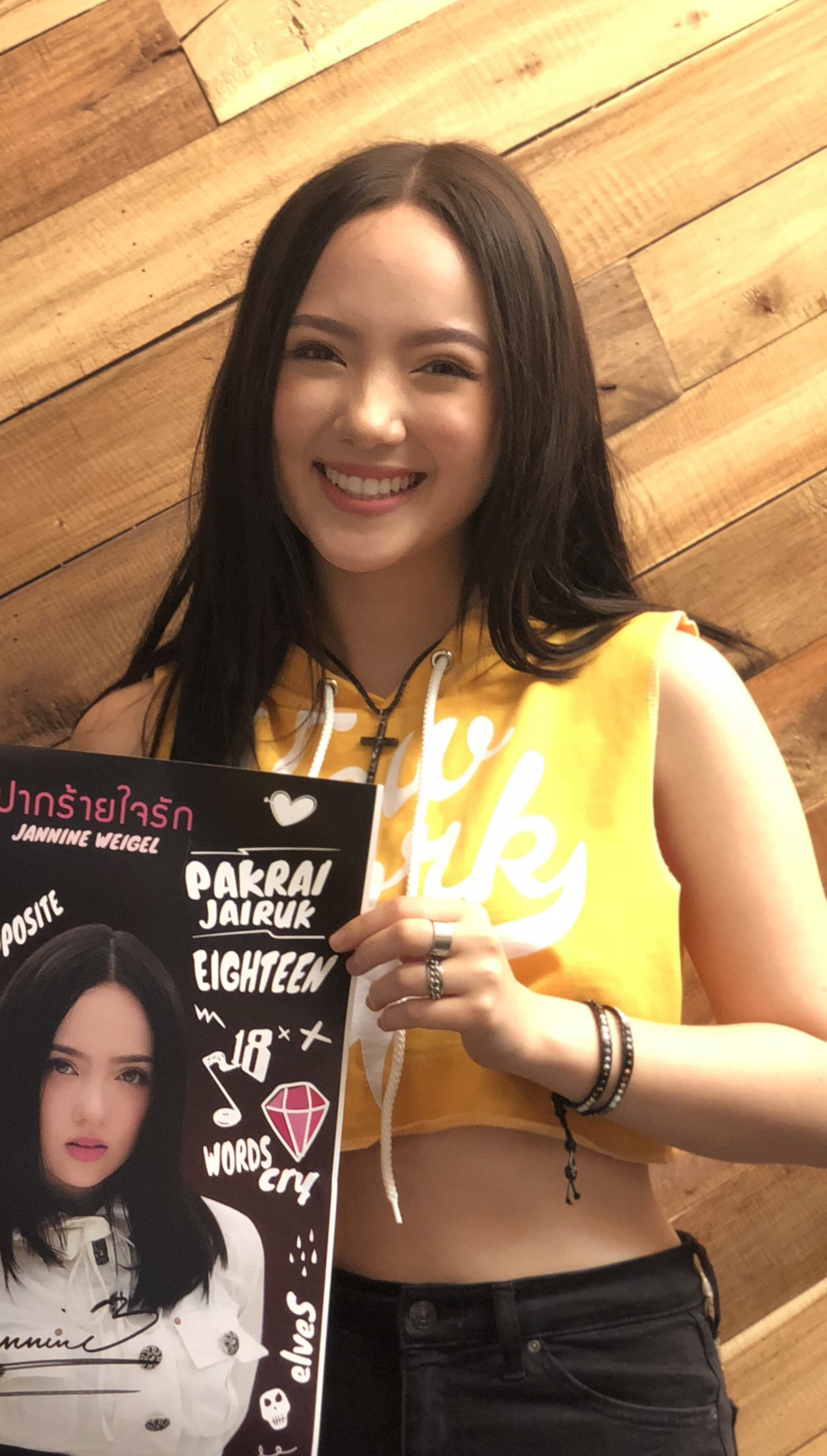 Jannine weigel at VERY 2018-9-21